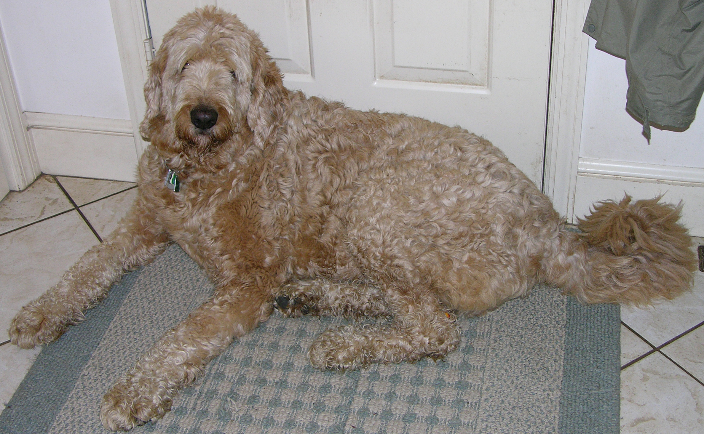 A photograph of a Labradoodle laying.